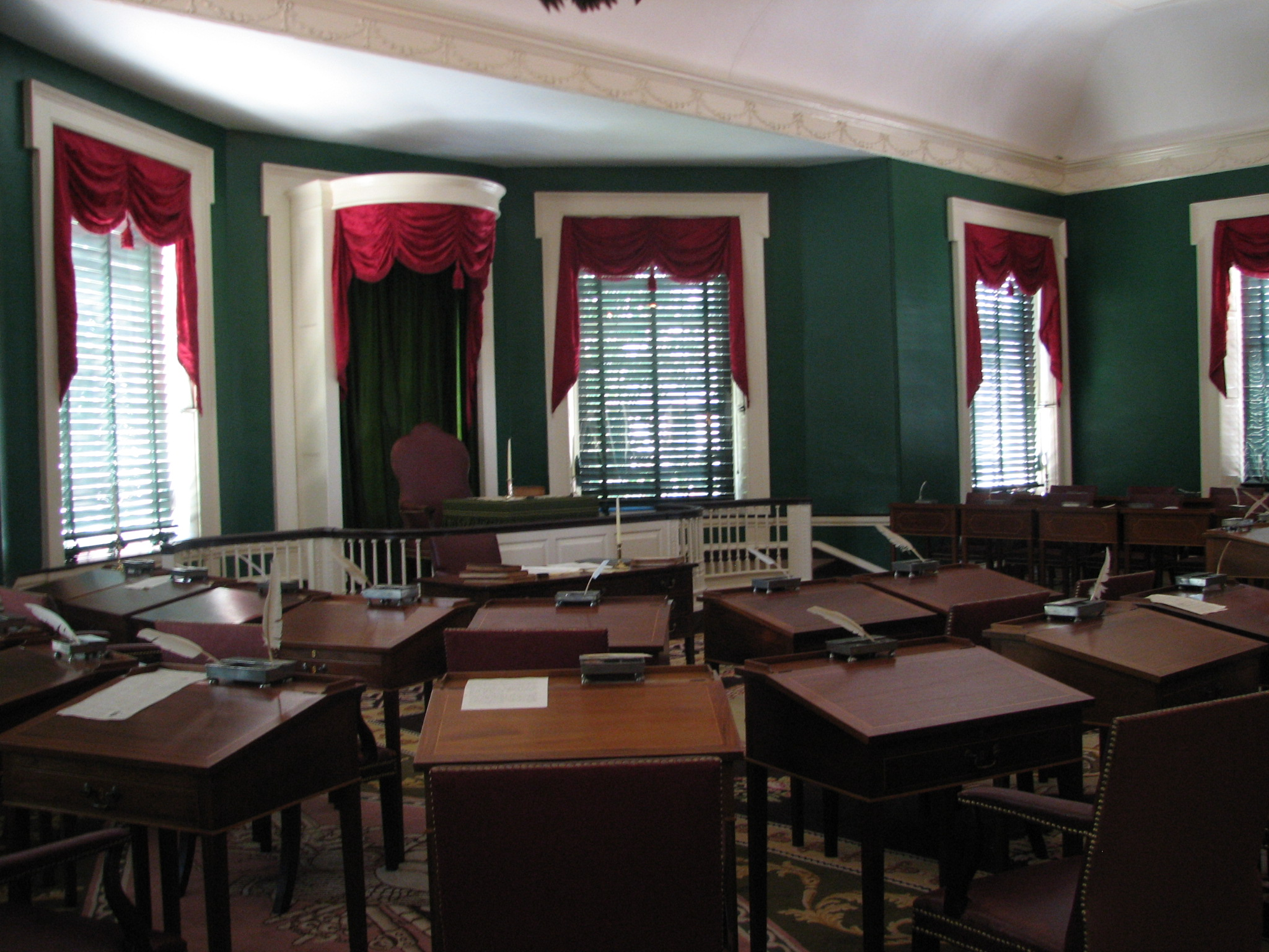 Interior of the senate chamber of Congress Hall at Philadelphia, Pennsyvlania